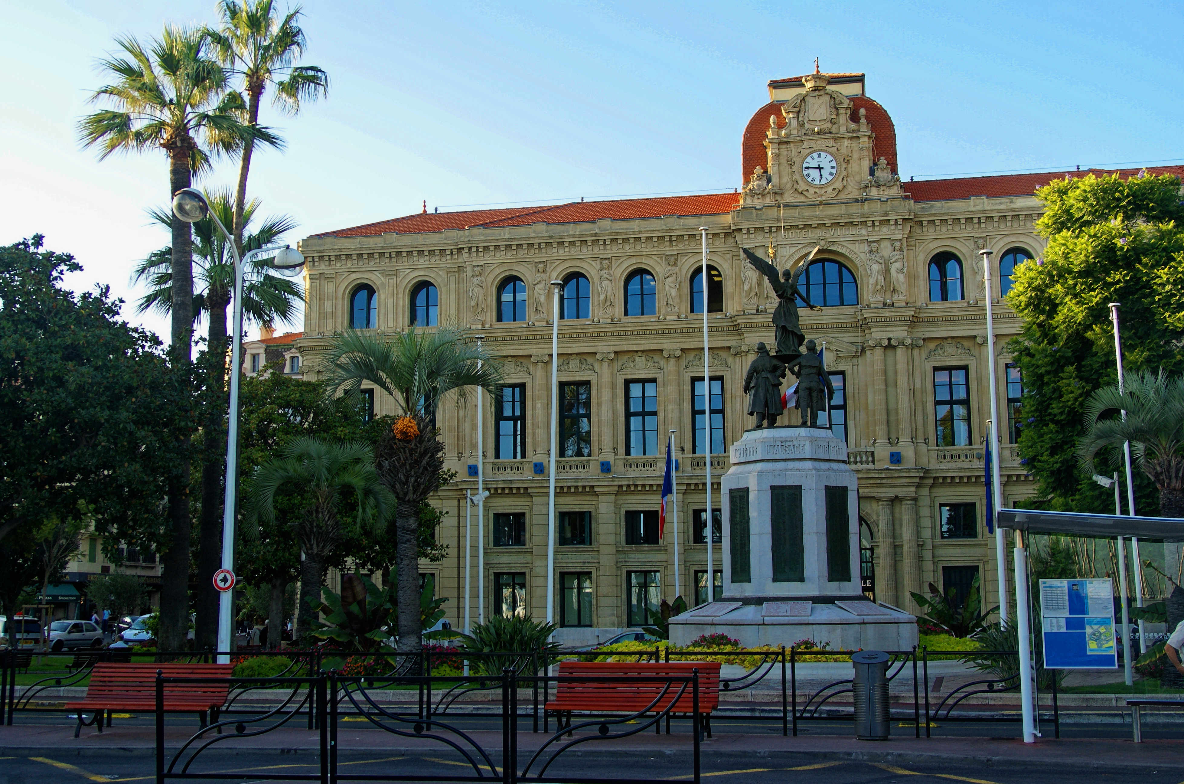 Cannes - Promenade de la Pantiero - View NNW on Marie de Cannes / Hotel de Ville / City Hall